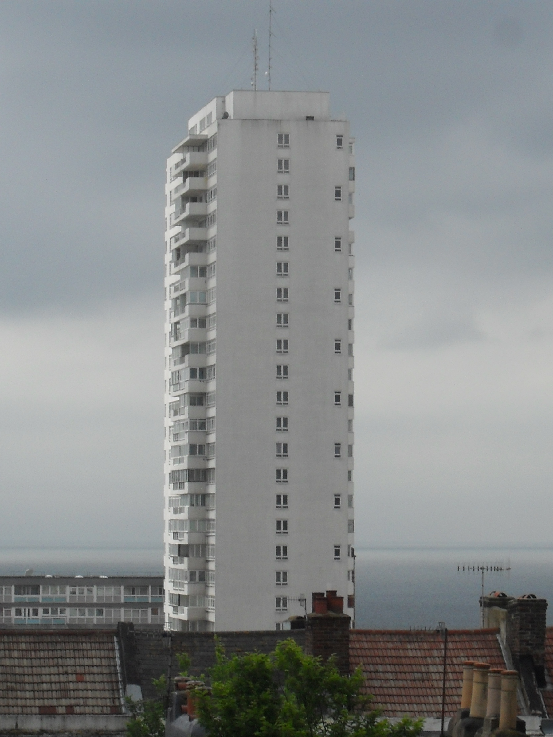 Sussex Heights, St Margaret's Place, Brighton, City of Brighton and Hove, England. Brighton's tallest building, this residential tower block was built by R. Seifert & Partners in 1966–68. This picture was taken from the north, looking down on the building from the higher ground of the St Nicholas' Garden of Rest, Dyke Road. The building stands on the site of the former St Margaret's Chapel, a Greek Revival-style early 19th-century proprietary chapel designed by Charles Busby.